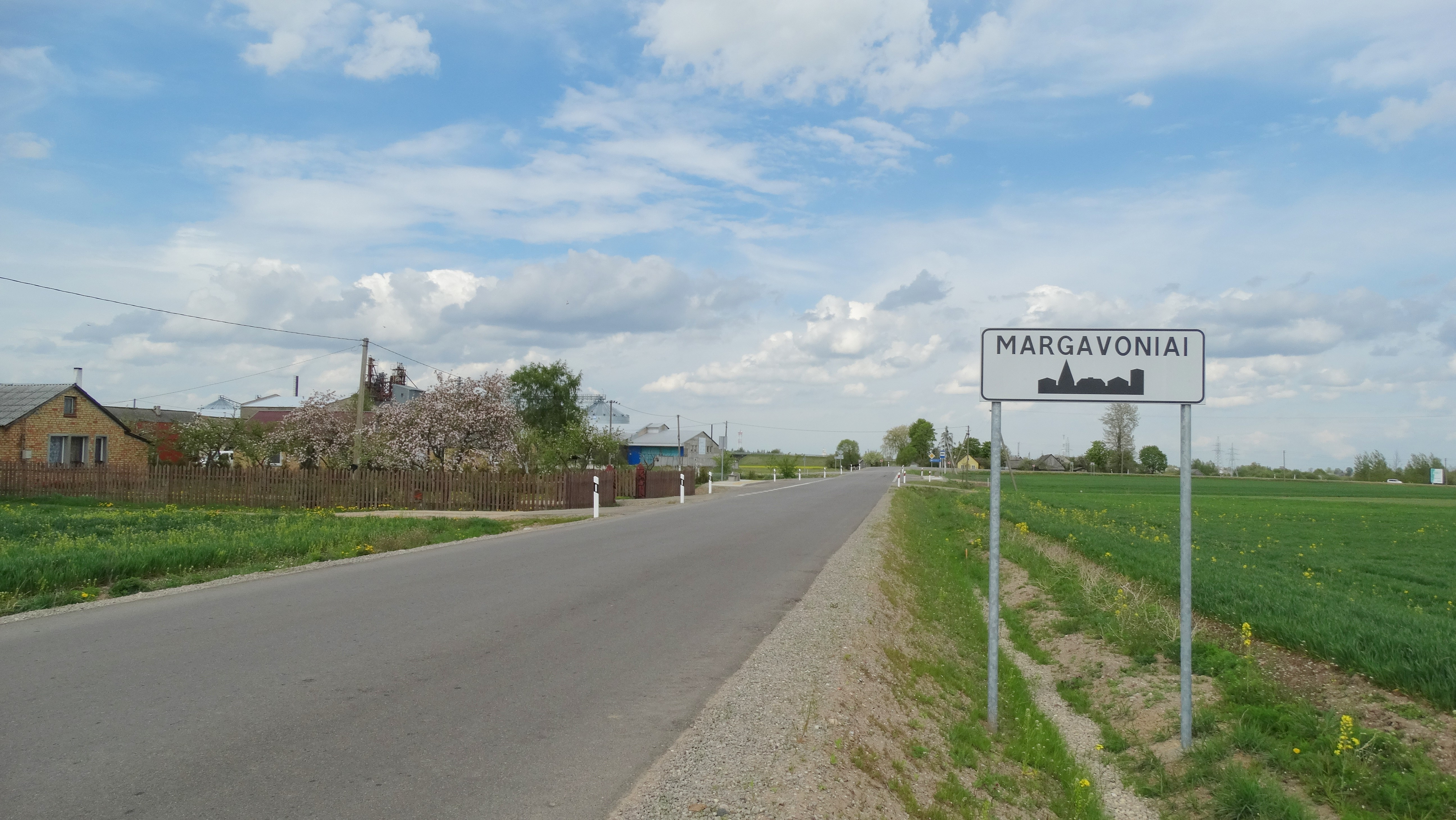 Margavoniai, Radviliškis district, Lithuania